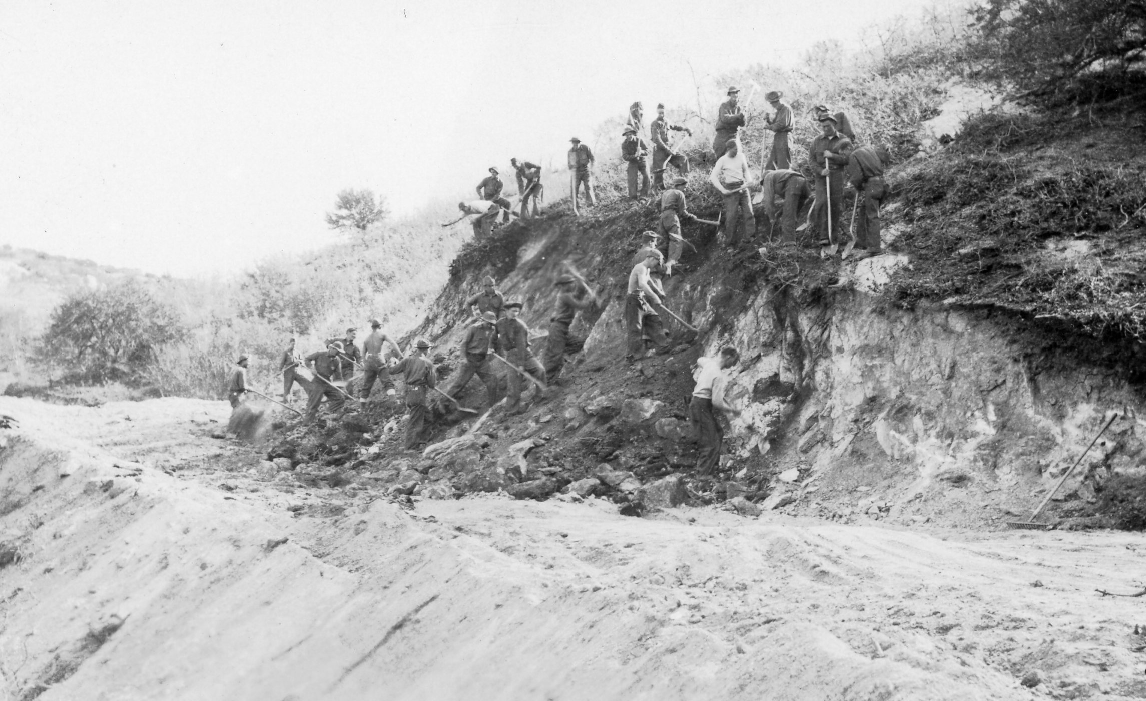 Workers from CCC Camp DG-35, Company 2530